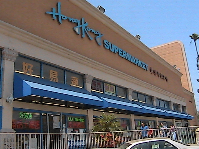 Exterior shot of Hong Kong Supermarket in Monterey Park, Southern California.